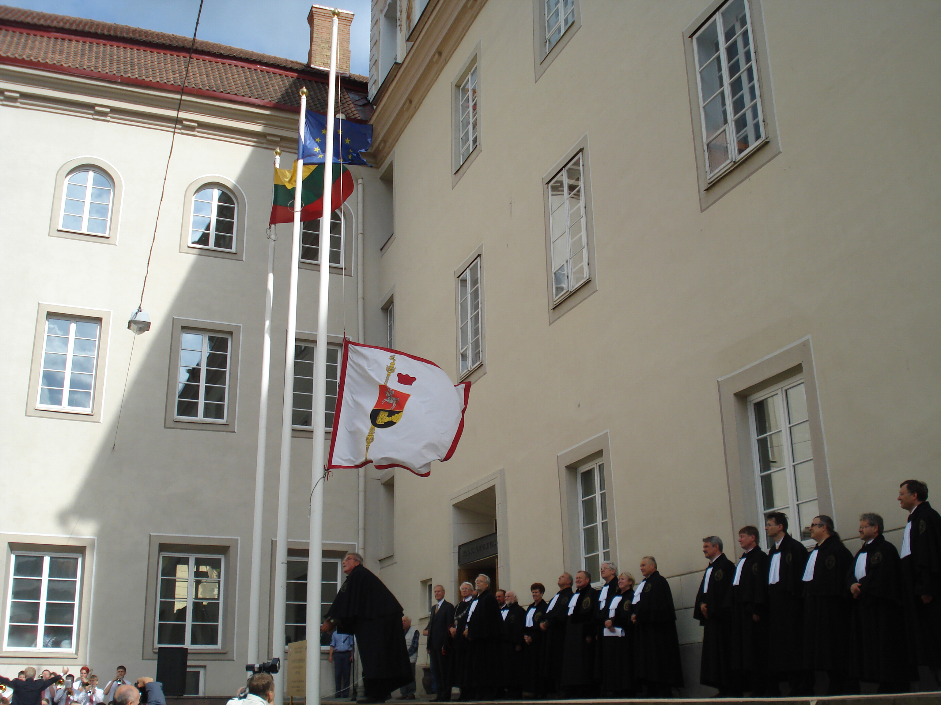 Finis Semestri. Vilnius University, 2007